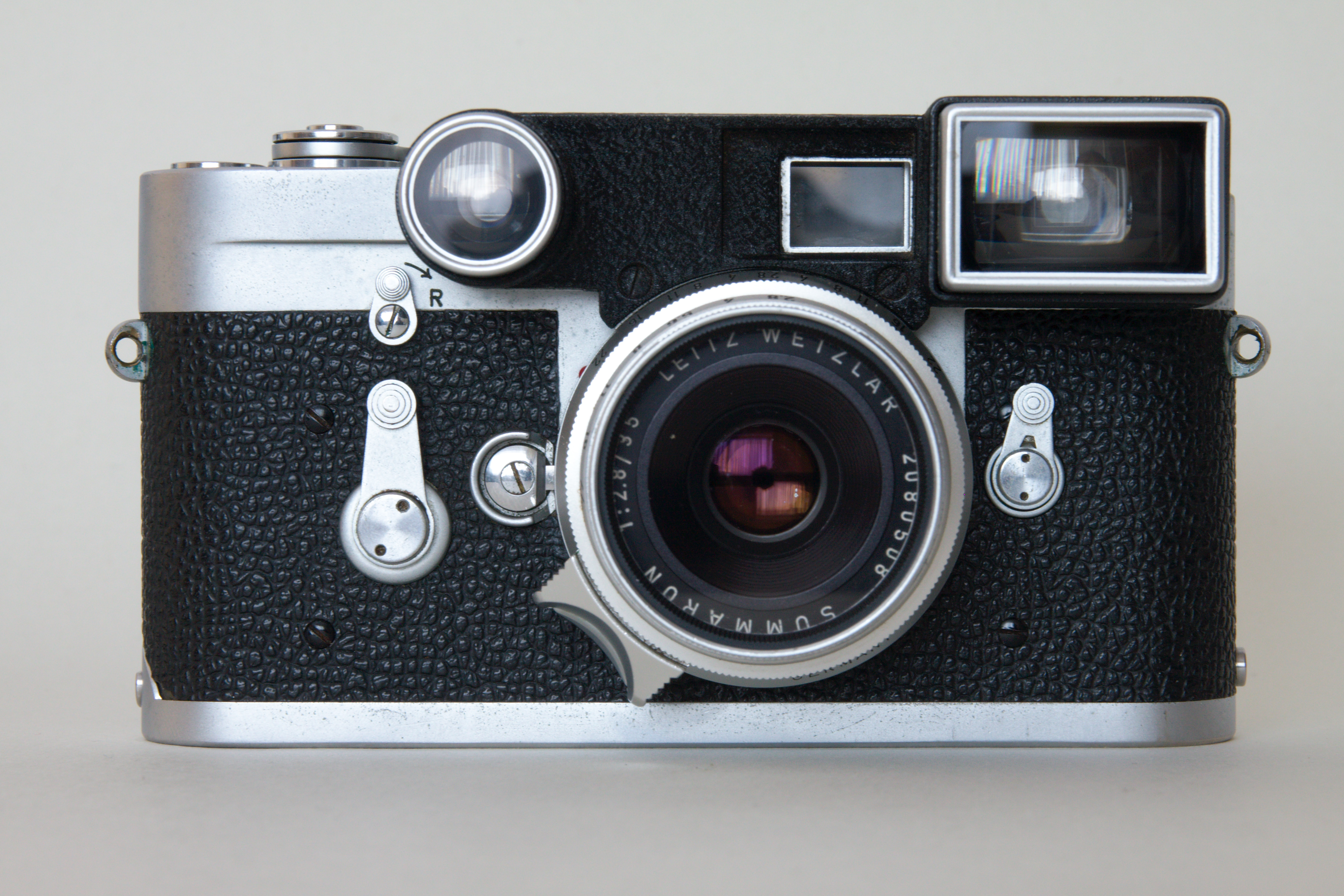 Leica M3 & Summaron 35mm f/2.8